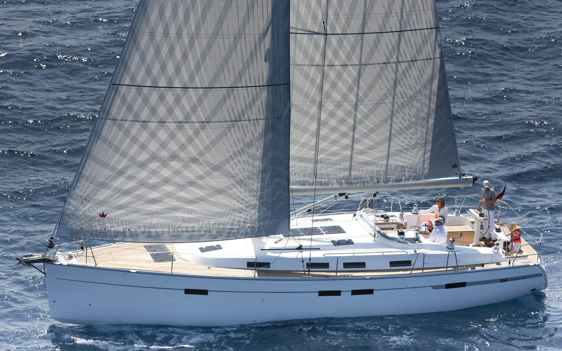 A sailing yacht type Bavaria Cruiser 45 by Bavaria Yachtbau (Germany)